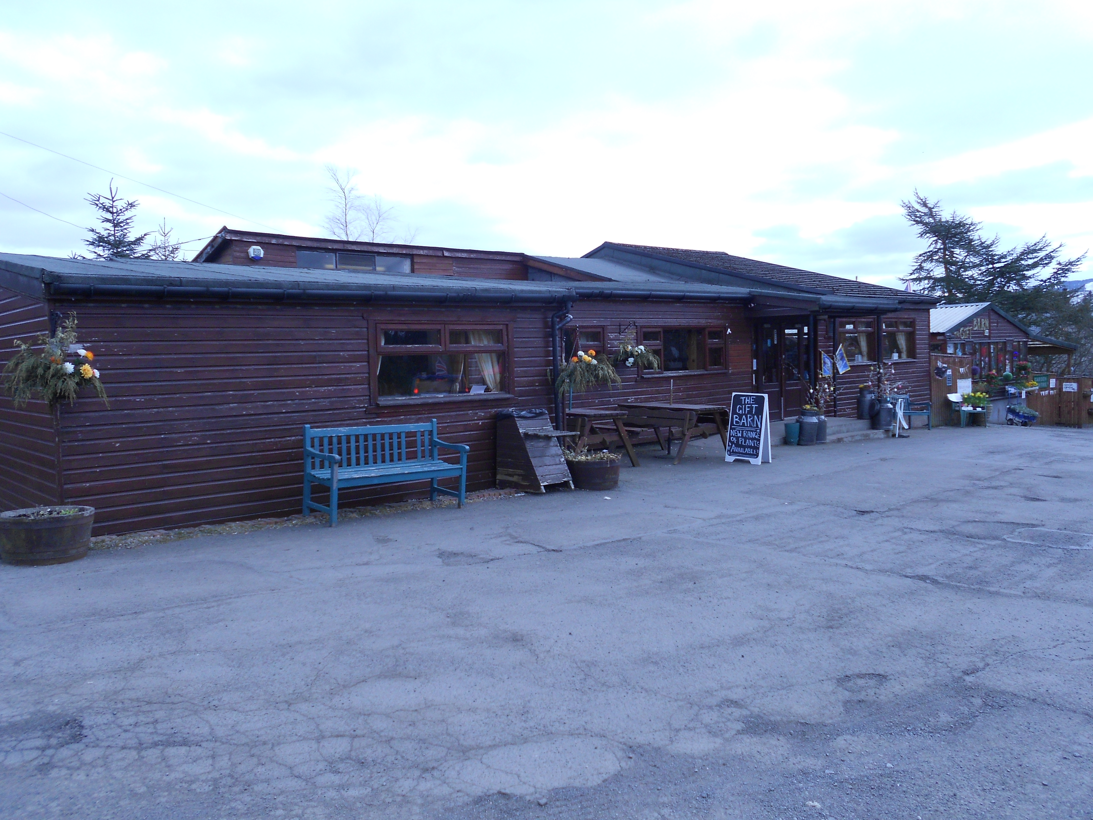 milk barn @ powmill